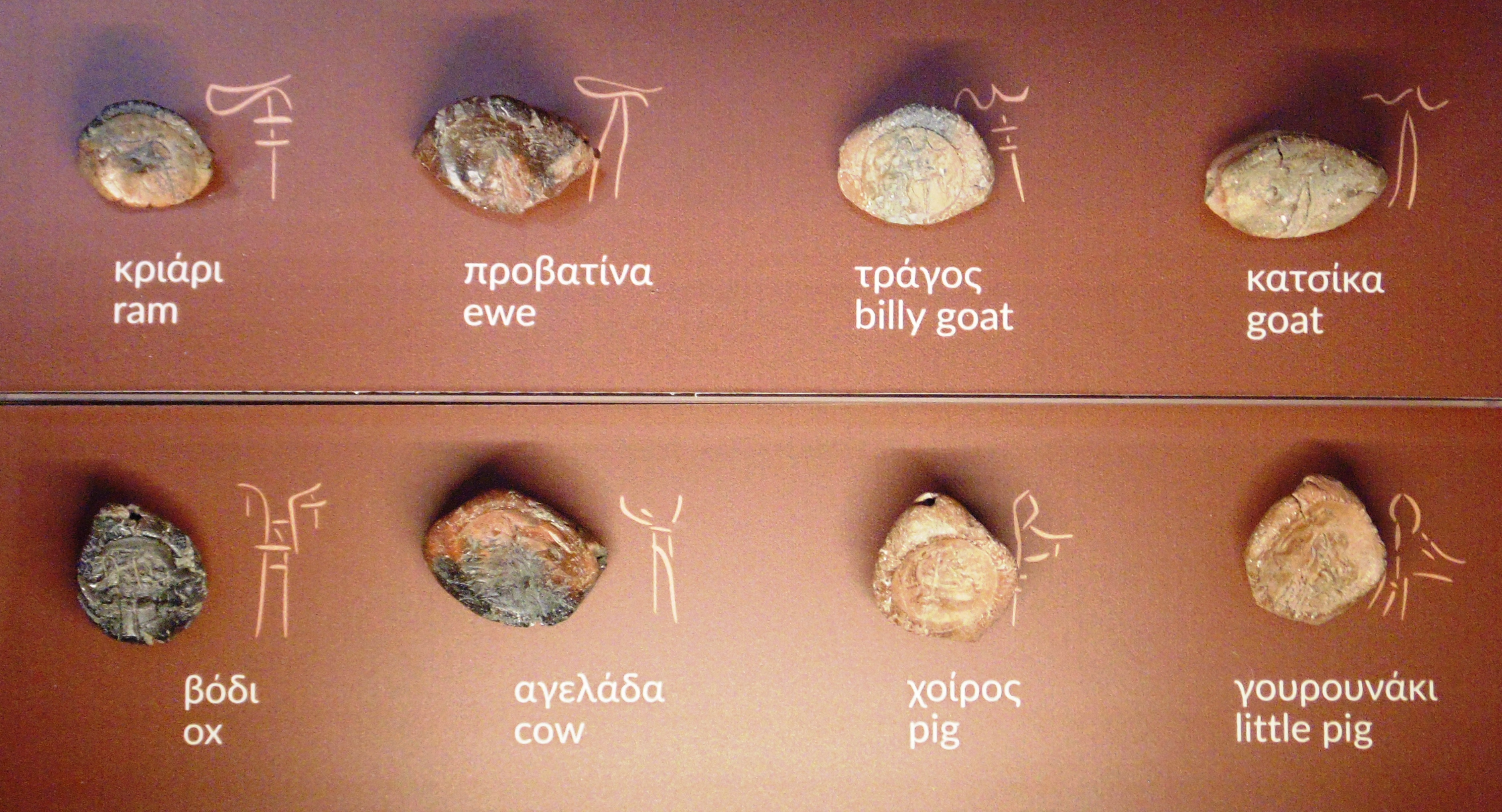 Collection of Archaeological Museum of Thebes